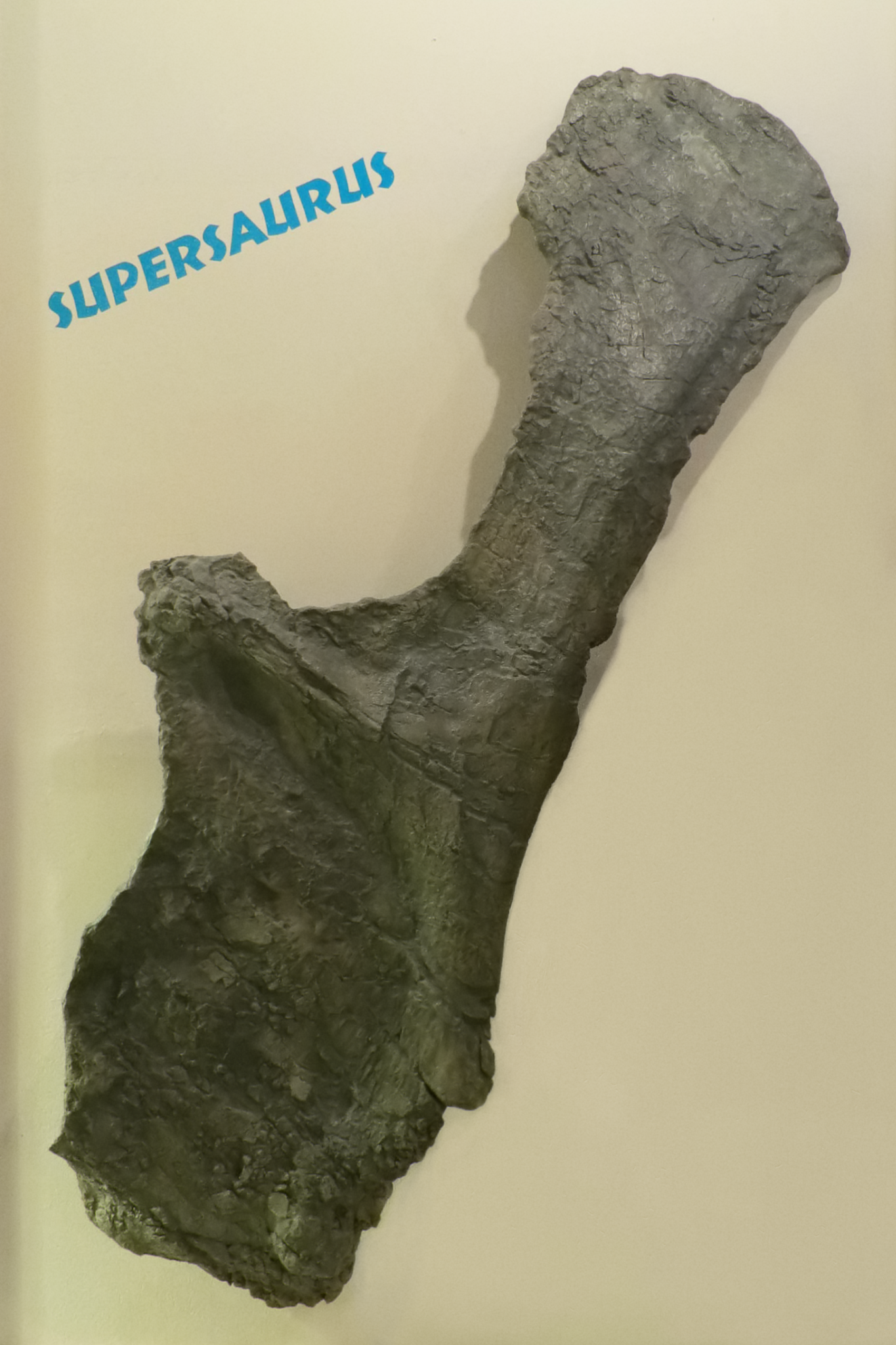 A cast of BYU 9025, the holotype fossil of the sauropod dinosaur Supersaurus, a giant scapulocoracoid measuring 2.4m long. • The source photo was taken at the Dinosaur Journey Musuem. • Notes regarding the file; This image was edited and extracted from the original seen here. [1] The Photoshop CC lens correction profile and a 'perspective warp' correction were applied.